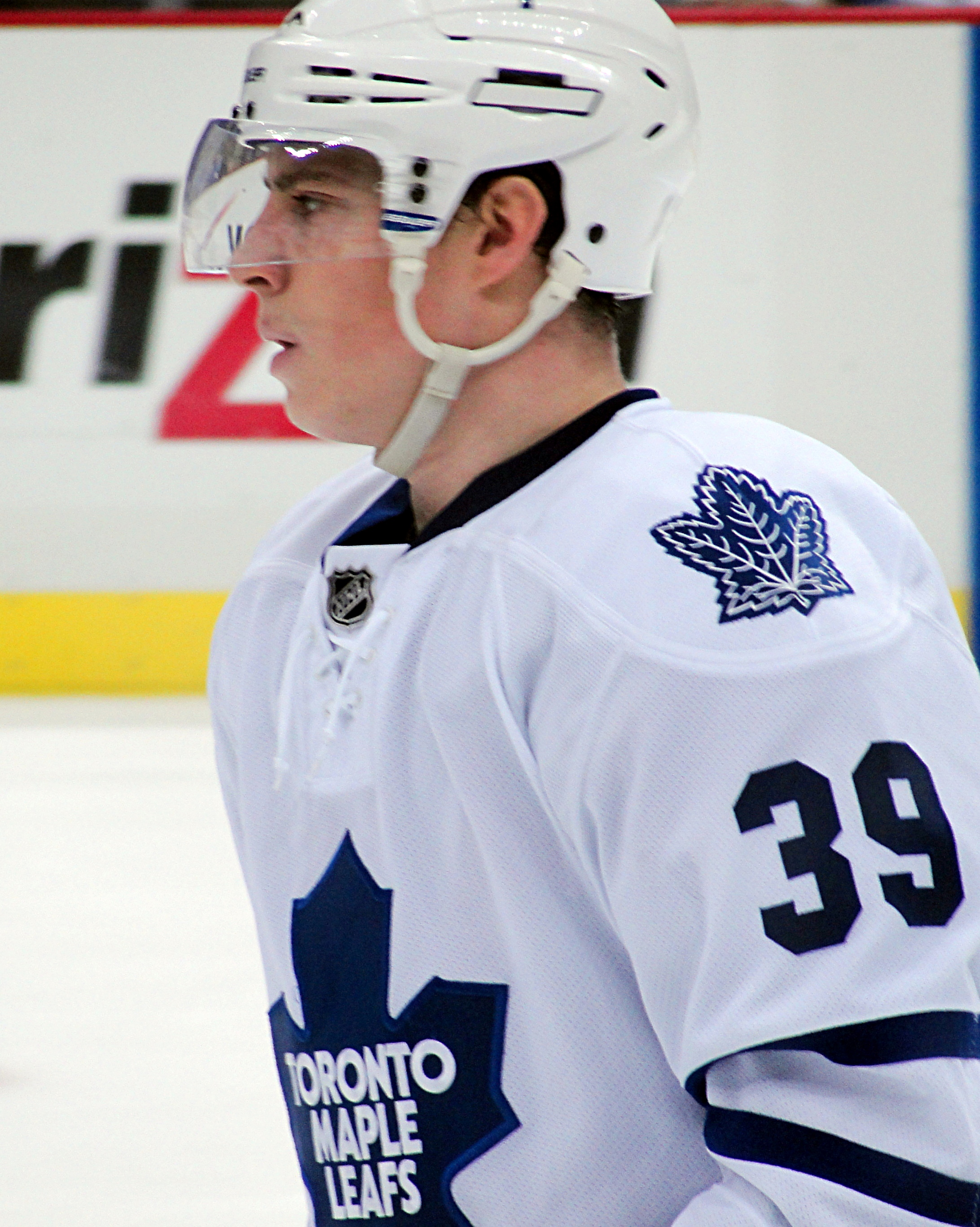 Toronto Maple Leafs forward Matt Frattin skates against the Pittsburgh Penguins, March 7, 2012 at Consol Energy Center in Pittsburgh, PA.